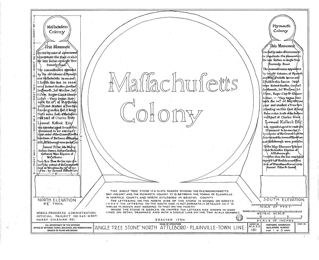 Architectural Drawing of the Angle Tree Stone 1935 North Attleboro - Plainville - Town Line Historic American Building Survey (HABS) Drawing Sheet 1 of 6 "THIS ANGLE TREE STONE IS A SLATE MARKER DIVIDING THE OLD MASSACHUSETTS BAY COLONY AND THE PLYMOUTH COLONY. IT IS BETWEEN THE TOWNS OF PLAINEVILLE IN NORFOLK COUNTY AND NORTH ATTLEBORO IN BRISTOL COUNTY."